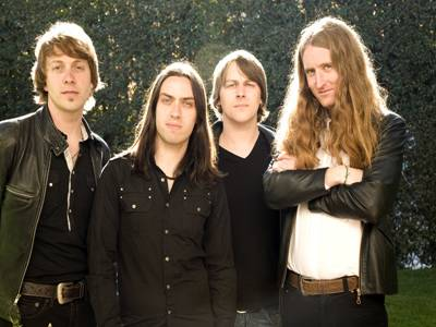 The Answer band